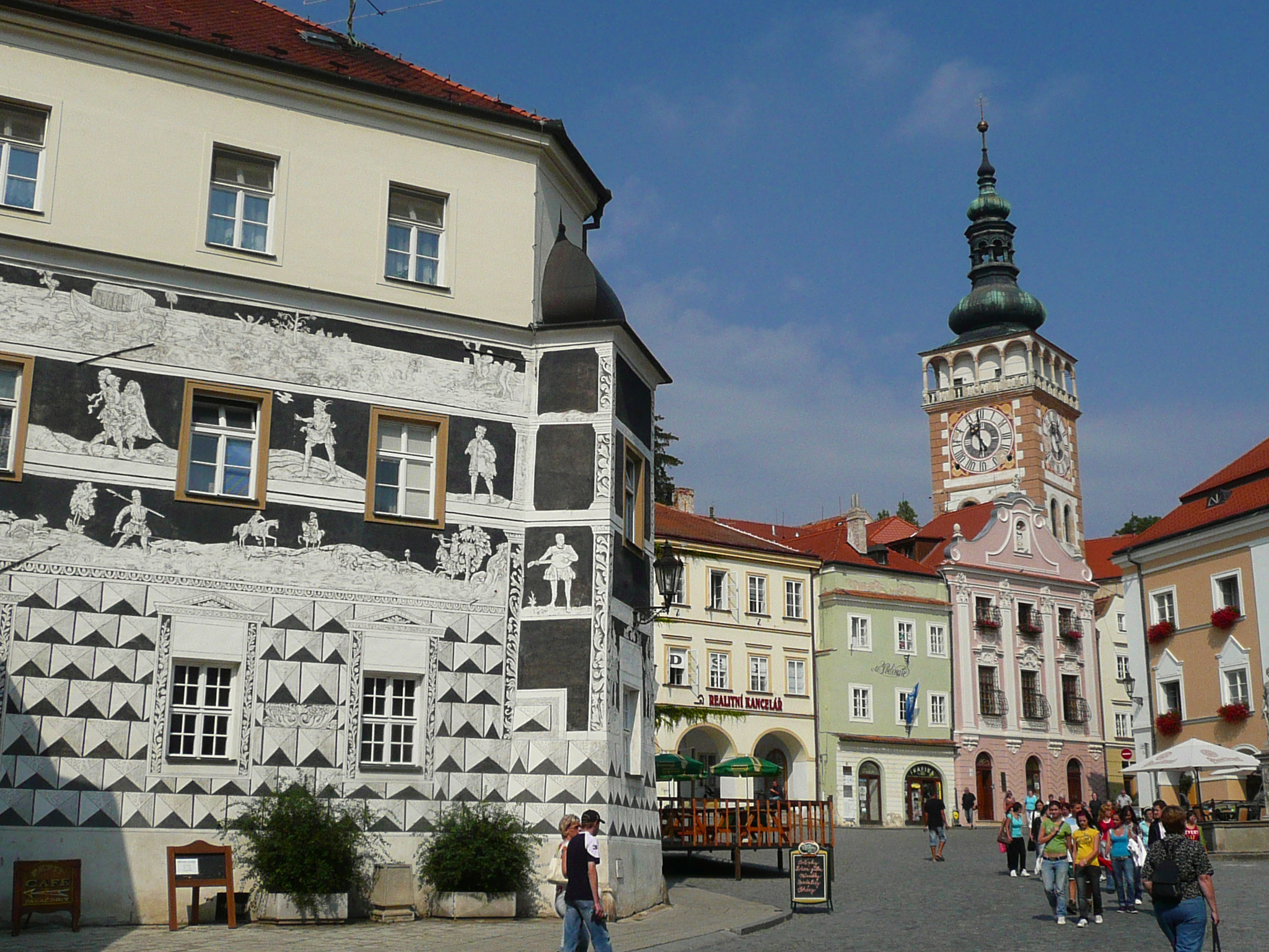 Mikulov main place with the Sgraffiti house